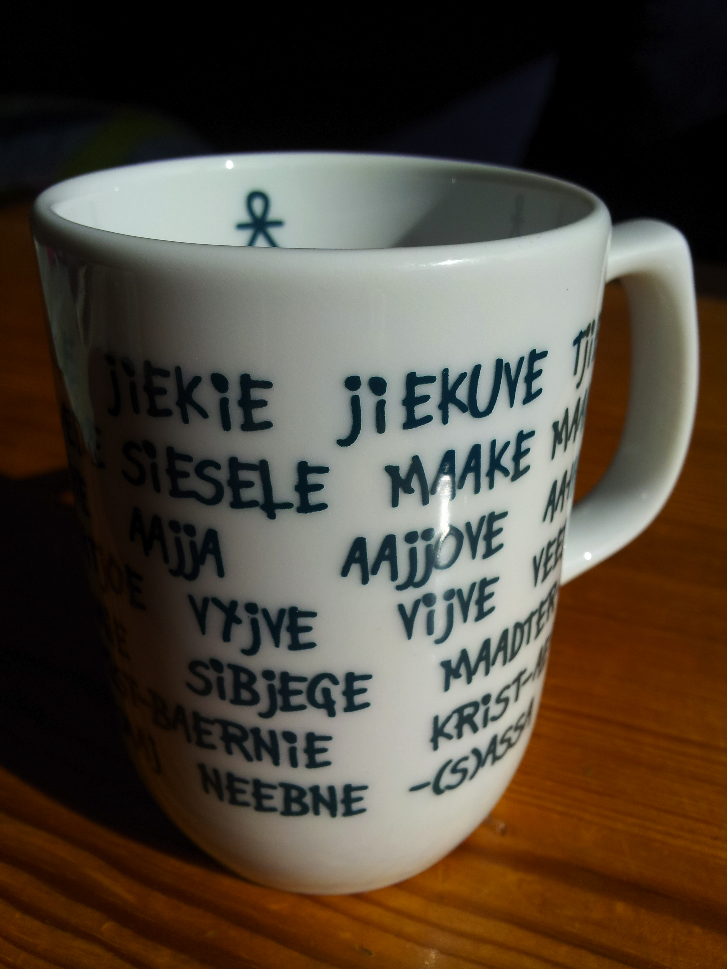 Inger Marie Oskals "Slektskoppen", showing South Sami kinship terms.